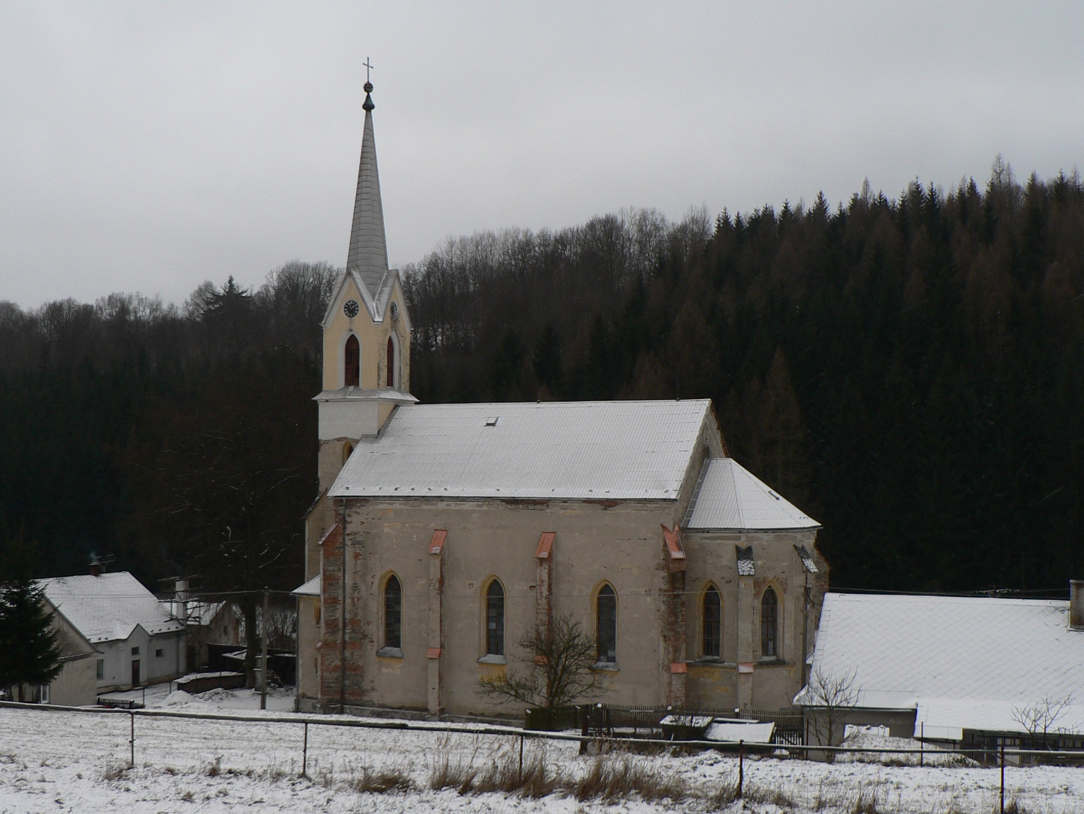 Oskava, Šumperk District, Czechia, part Bedřichov. Church of Saint Frederick.